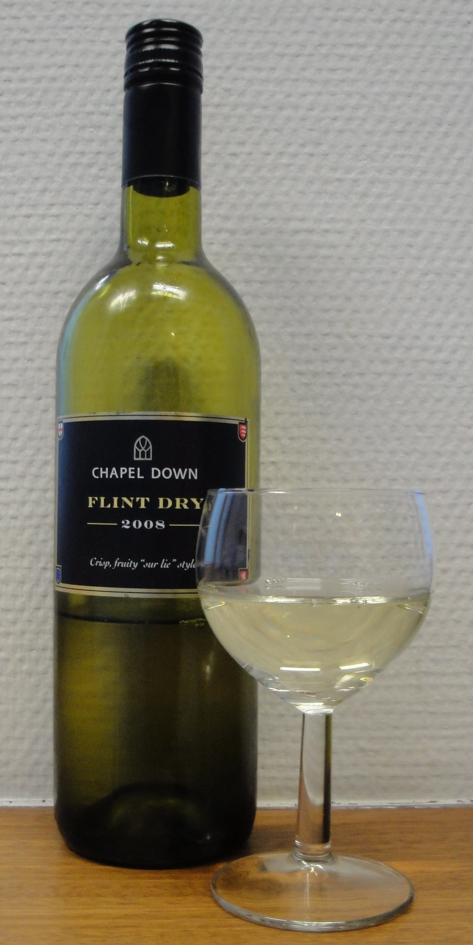 An English wine, Chapel Down Flint Dry 2008, produced in Kent